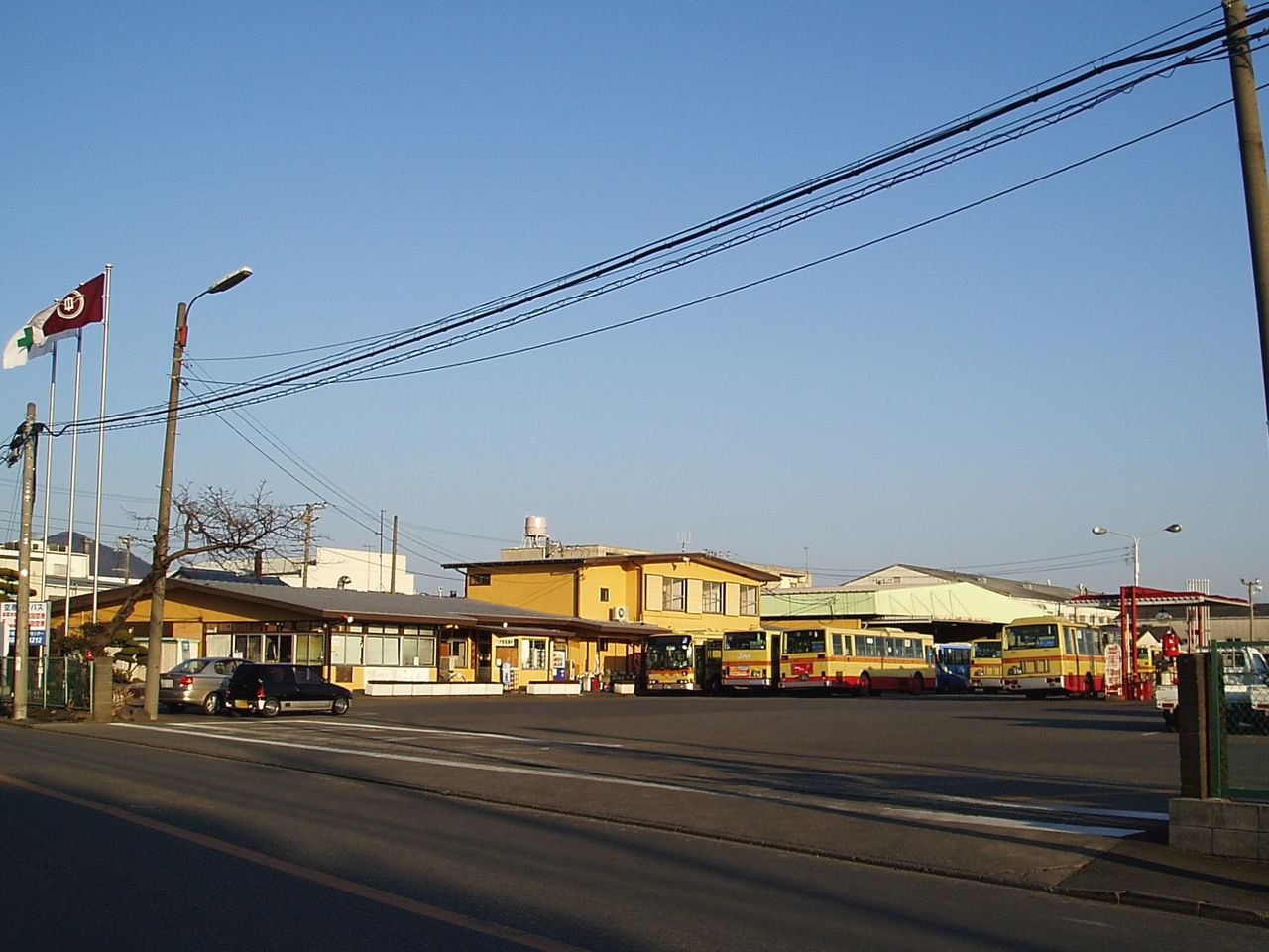 Kanachu Hadano Branch